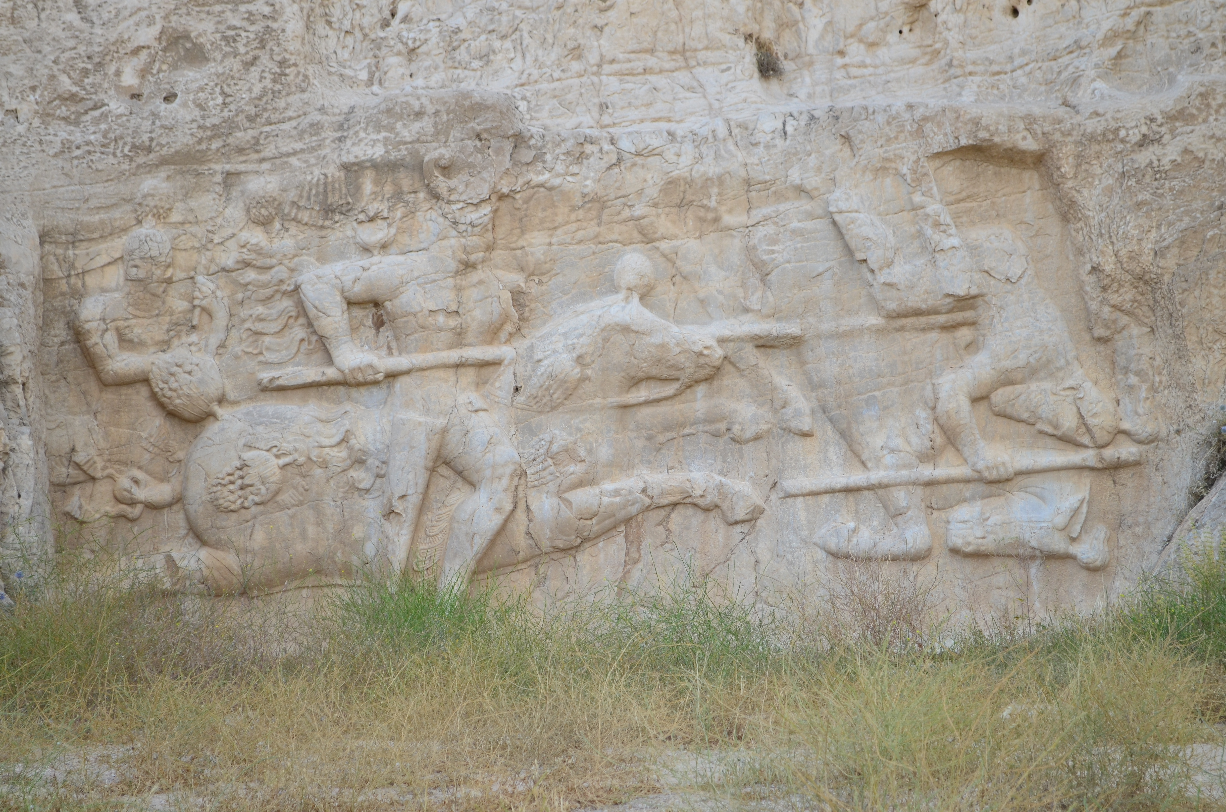 Naqsh-e Rustam